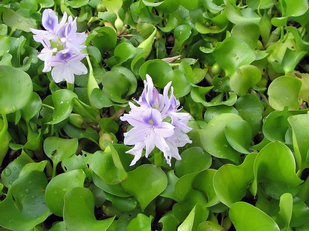 Location taken: Merrifield Garden Center , Merrifield VA USA. Names: Eichhornia crassipes (Mart.) Solms, Aguap, Aguapé